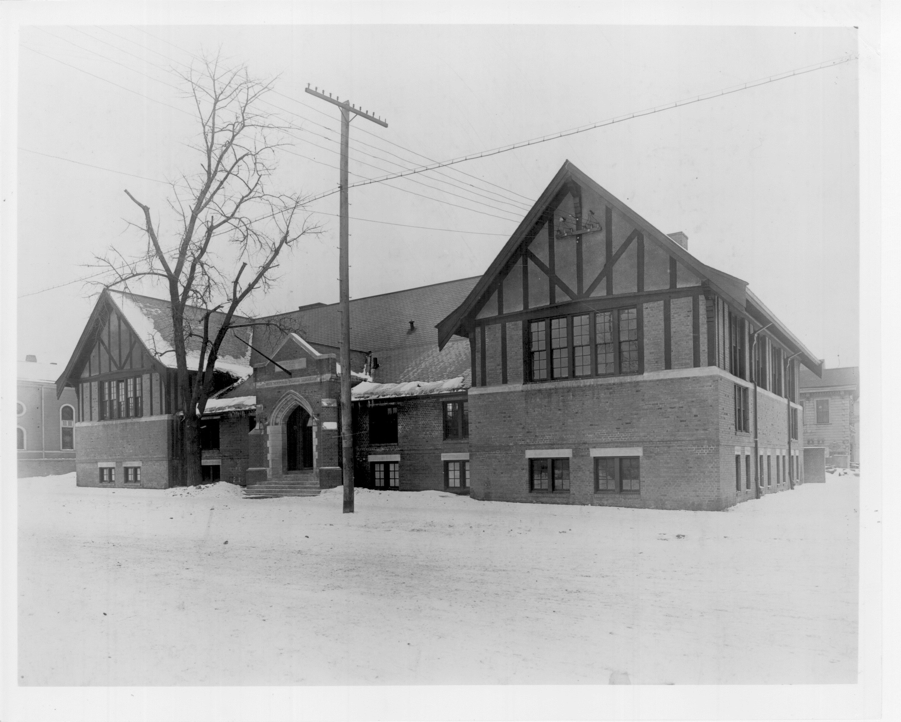 The Seven Corners Library was a branch of the Minneapolis Public Library from 1906-1964. It primarily served the Cedar-Riverside neighborhood.